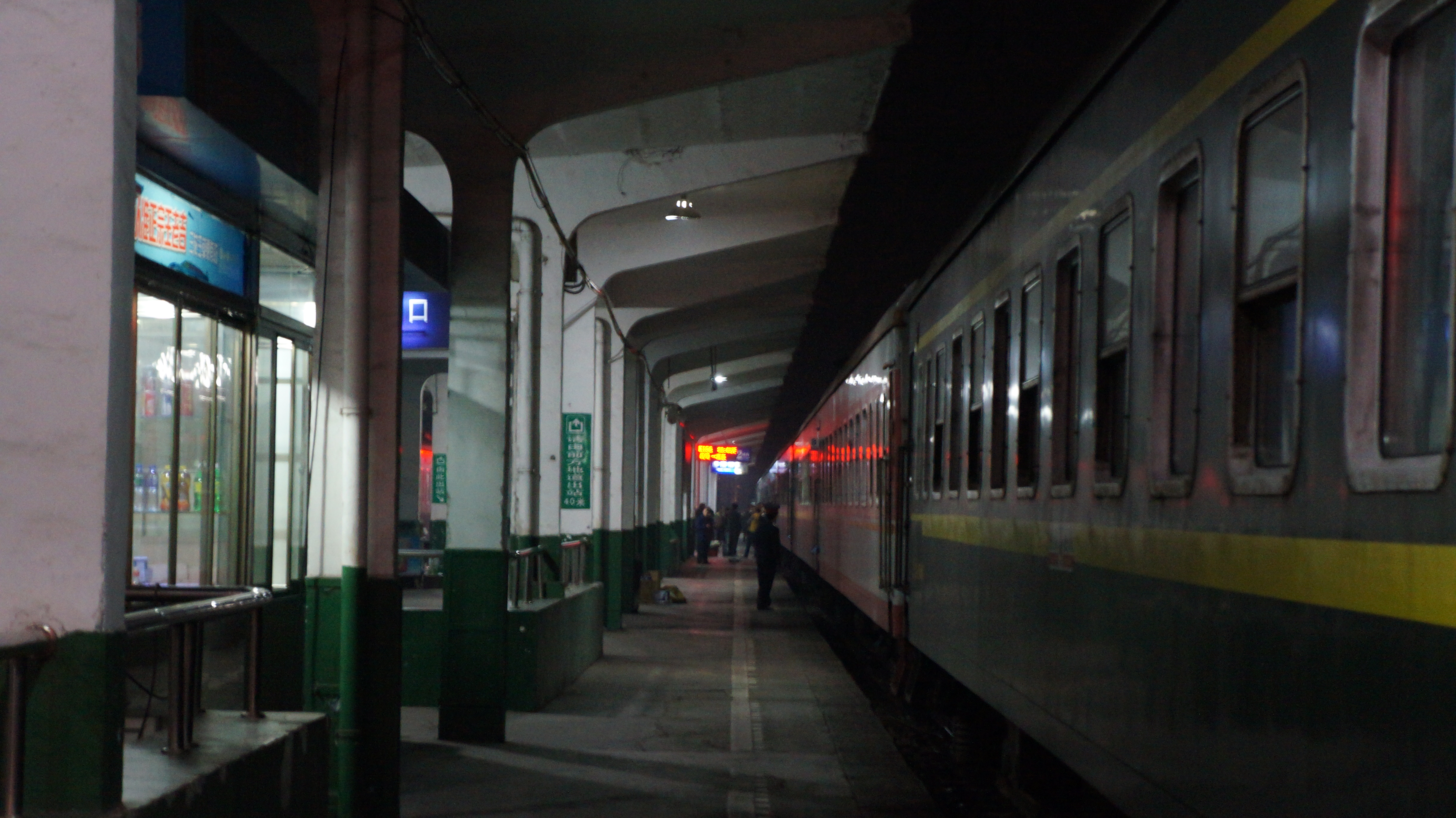 Platform 2 of Yingtan Railway Station